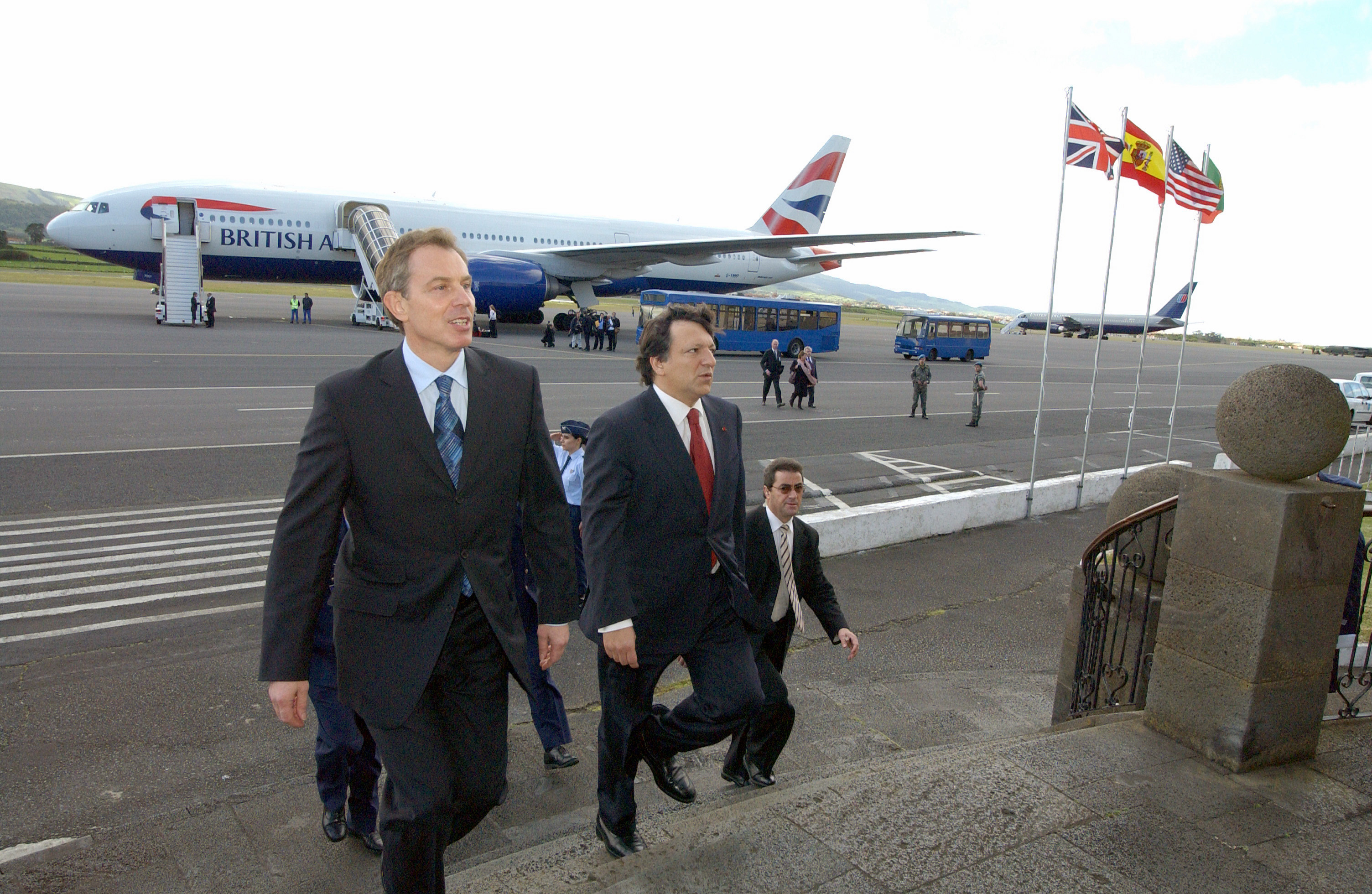 British Prime Minister Tony Blair (foreground left), and Portuguese Prime Minister Durao Barroso (center) arrive at Lajes Field, Azores, for a one-day emergency summit meeting to discuss the possibilities of war in Iraq. A British Airways Boeing 777 Chartered Commercial Airliner is visible in the Background.